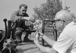 Vladimír Preclík and Theodor Ahrenberg